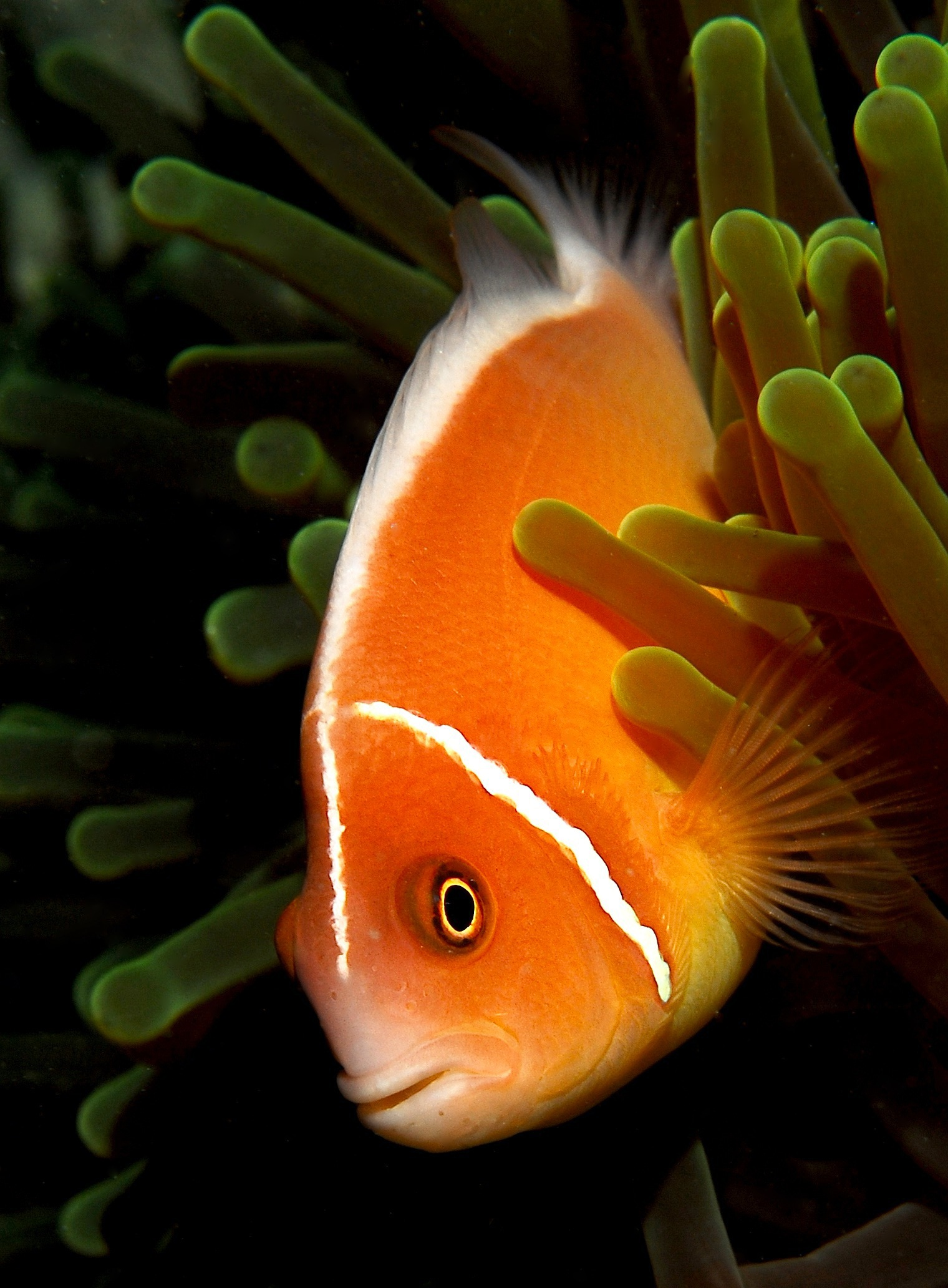 Anemonefish (Amphiprion perideraion) is an old friend of every divers. We never get boring about this lovely fish.